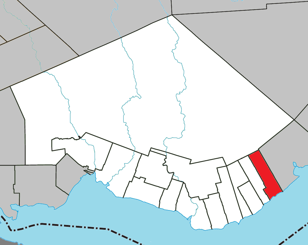 Location of Shigawake, Quebec within Bonaventure Regional County Municipality.